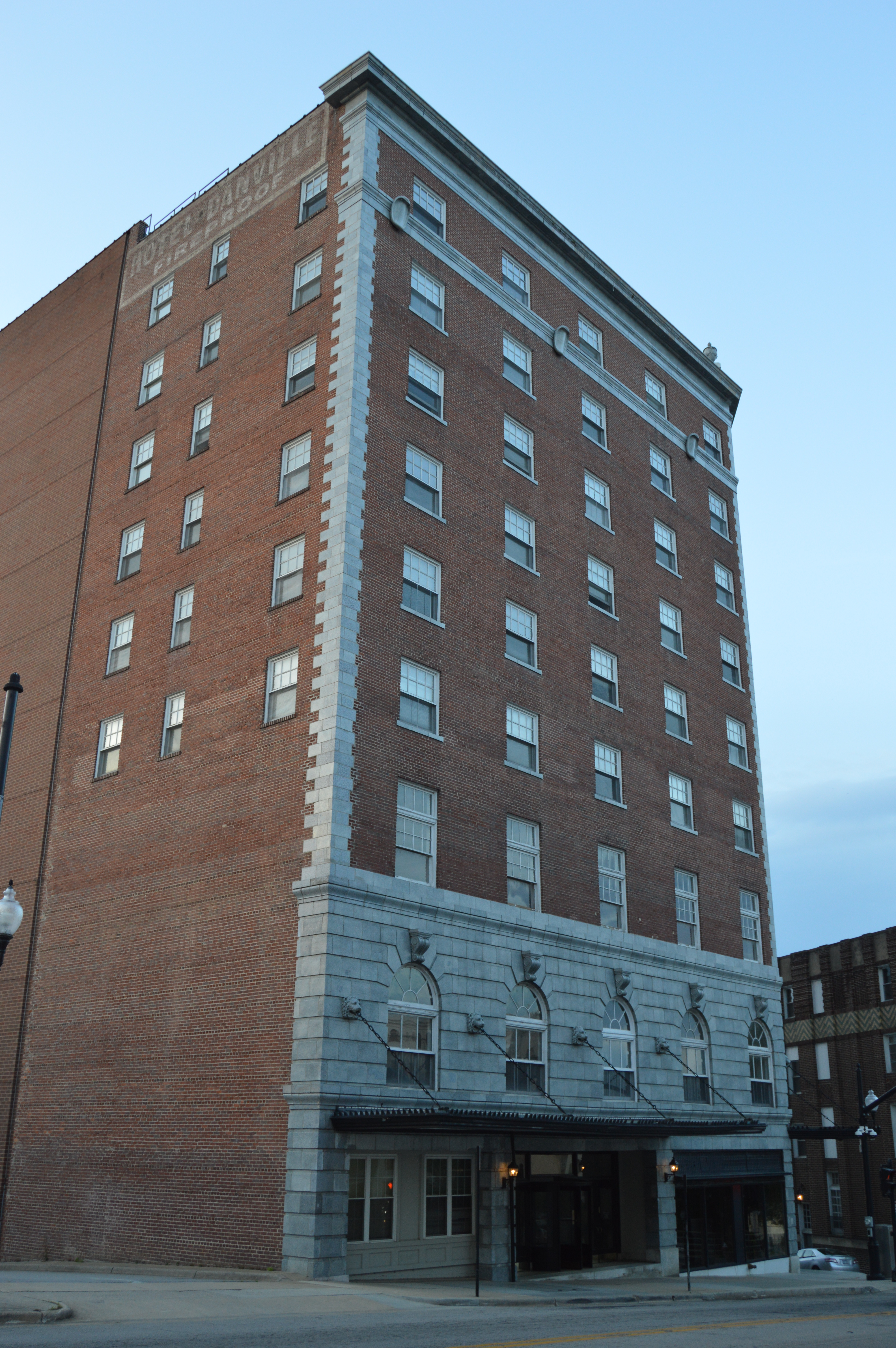 Front of the Hotel Danville, located at 600 Main Street in downtown Danville, Virginia, United States. Built in 1927, it is listed on the National Register of Historic Places, and it is part of a Register-listed historic district, the Downtown Danville Historic District.